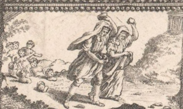 Detail from part 4 of Charta of Greece (Rigas Charta, Rigas Velestinlis, 1797) depicting the legend of Deucalion and Pyrrha